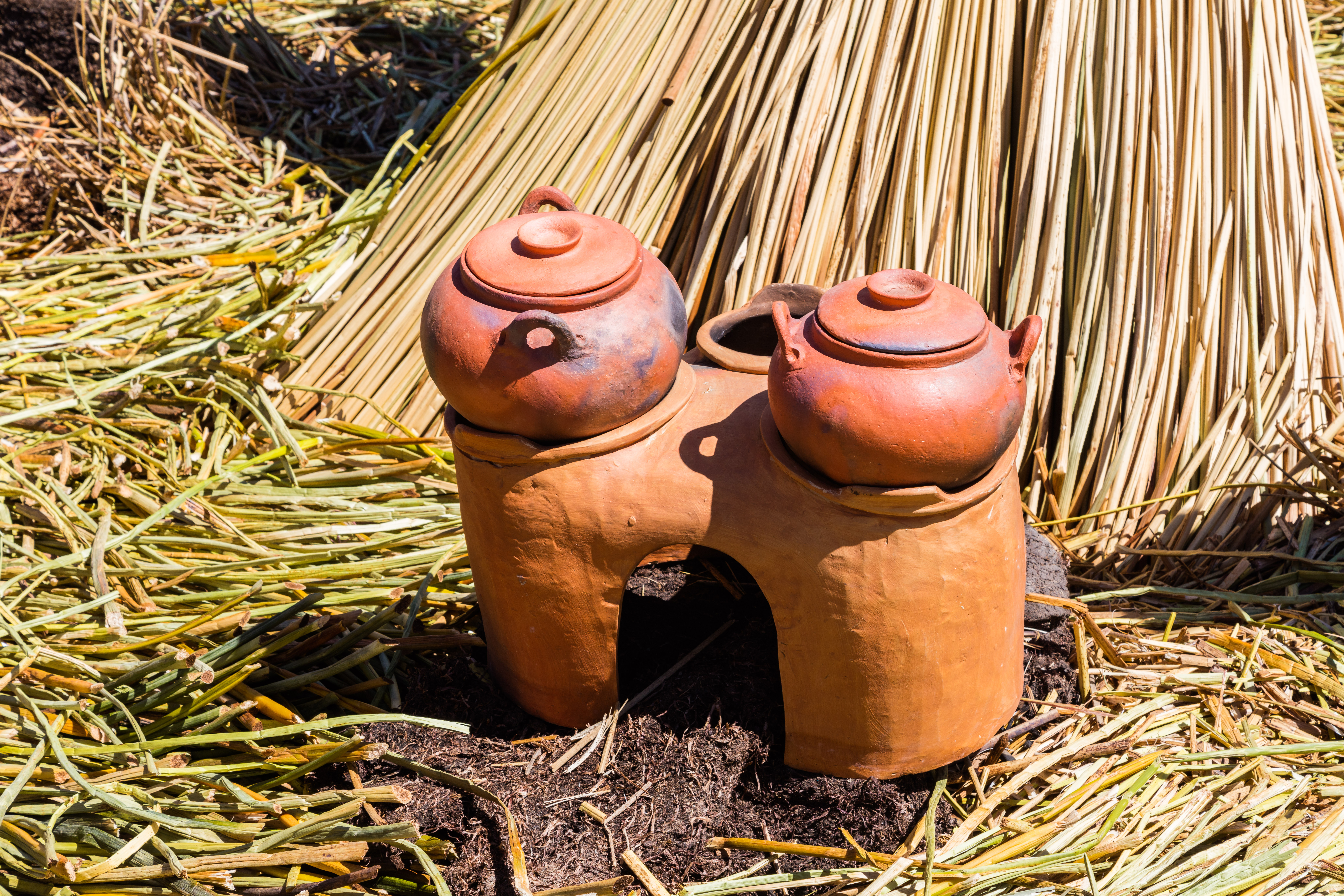 Uros floating islands, Titicaca Lake, Peru